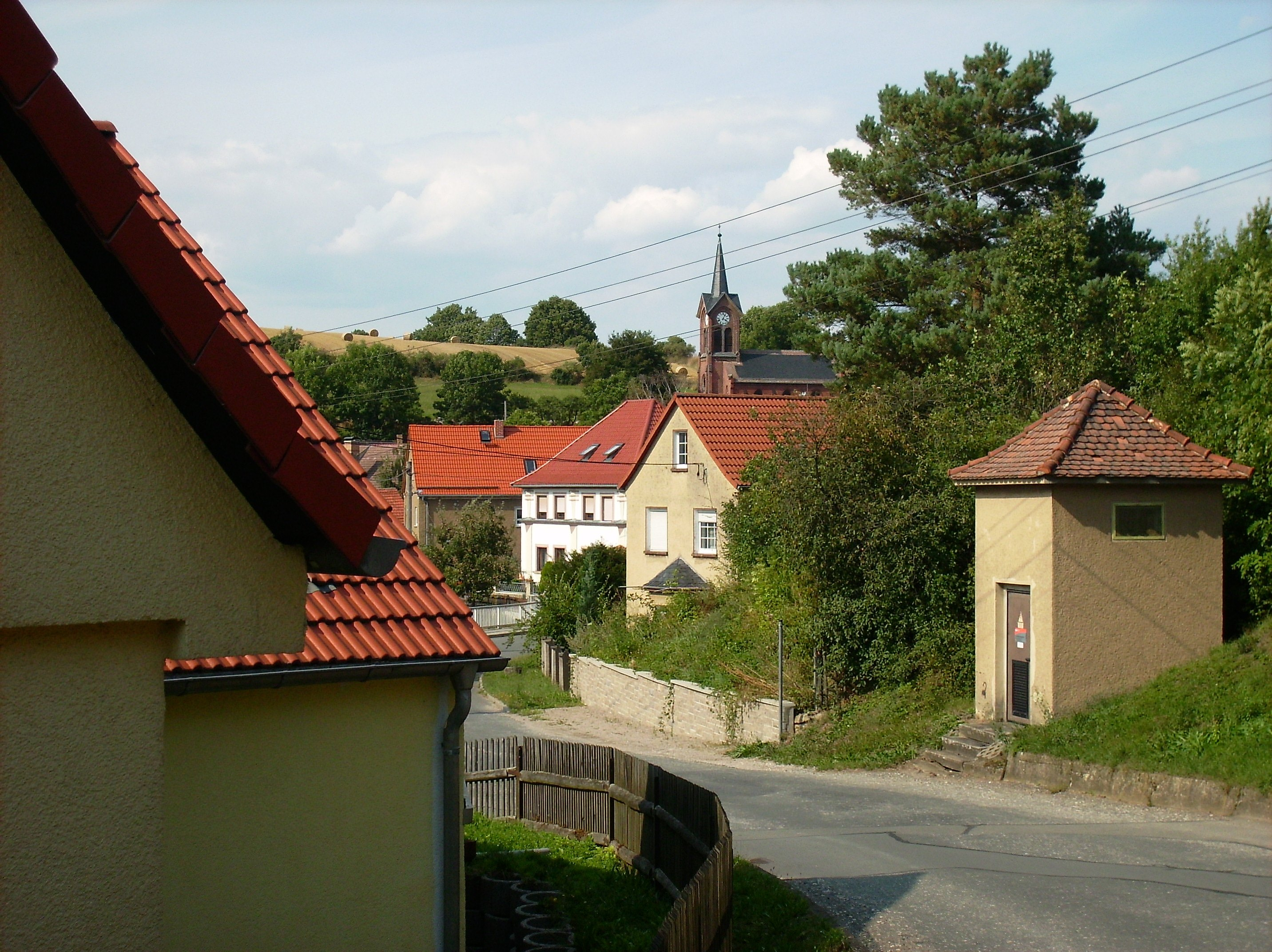 View of Petersberg (district of Saale-Holzland-Kreis, Thuringia) with St. Peter and Paul Church in the background